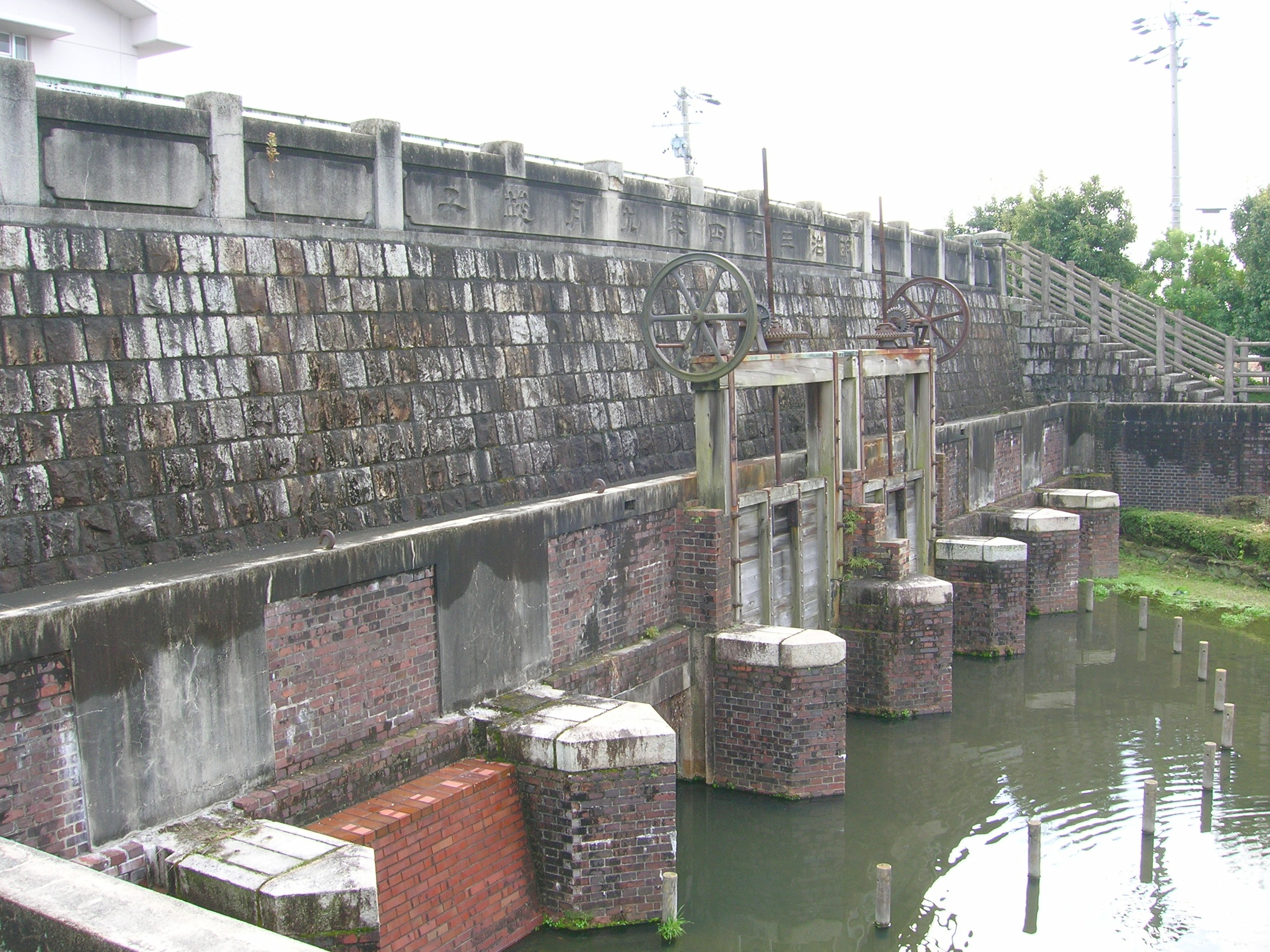 Tatsuta Wajû Jinzôseki Himon (Tatsuta Wajû Drain gate). Loc: Wajû park, Yatomi city, Aichi Prefecture, Japan. 立田輪中人造堰樋門 撮影場所 愛知県弥富市・輪中公園